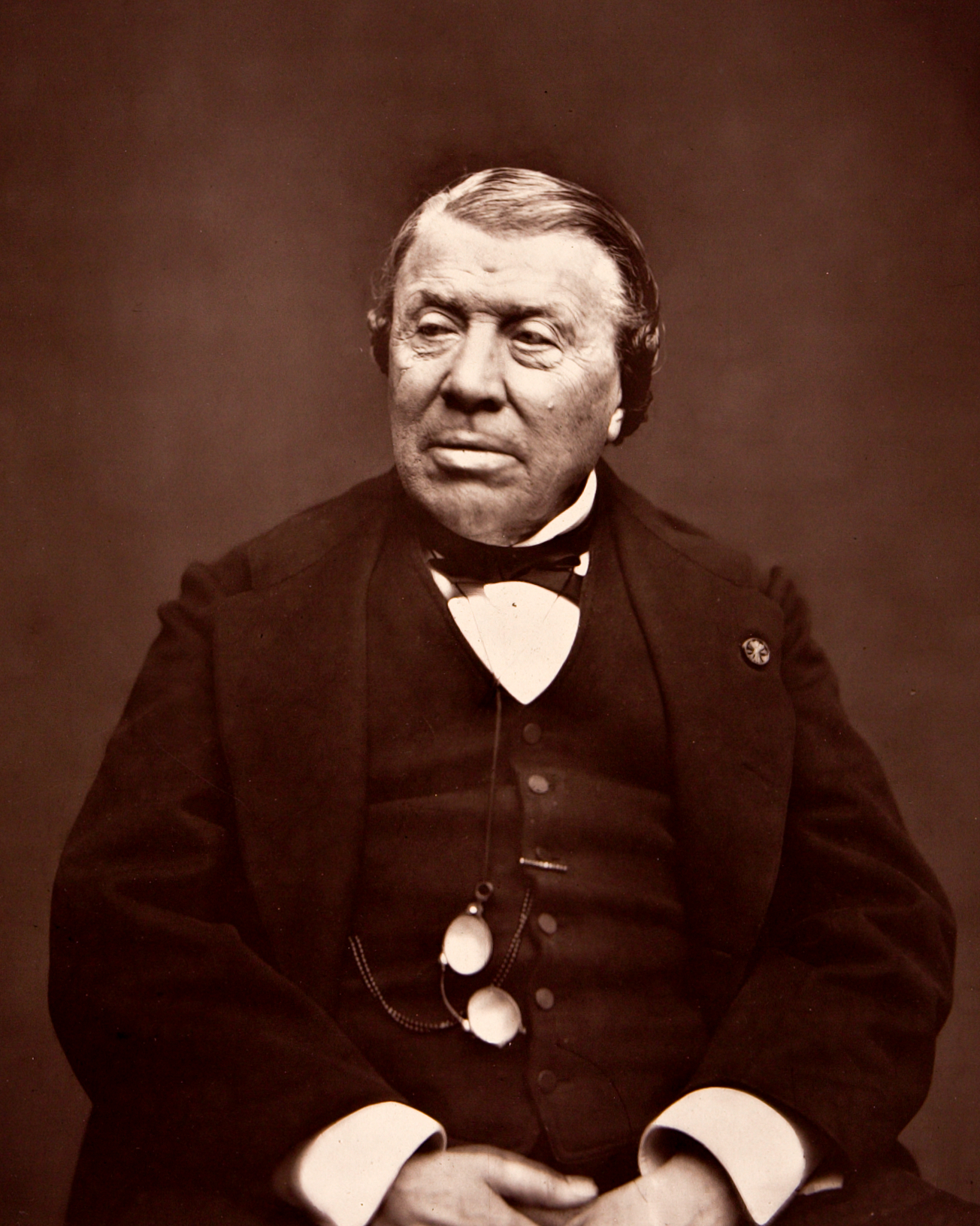 Philippe Ricord (1800-1889), Series: Galerie Contemporaine; Woodburytype